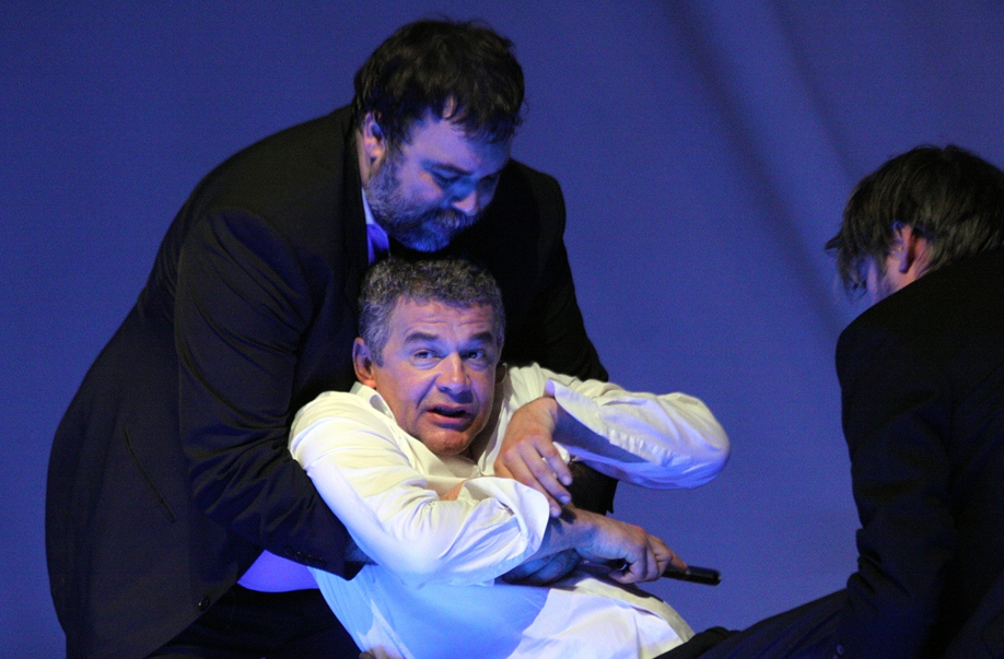 Miloš Samolov and Nebojša Glogovac